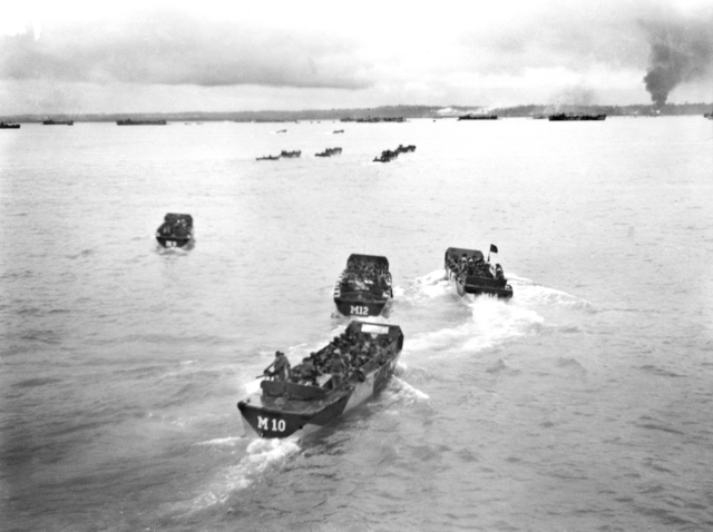 AWM Caption: TARAKAN. 1945-05-01. THE SECOND WAVE OF 2/48 INFANTRY BATTALION TROOPS LEAVING THE MANOORA IN LANDING CRAFT VEHICLE PERSONNEL DURING THE LANDINGS ON D- DAY.